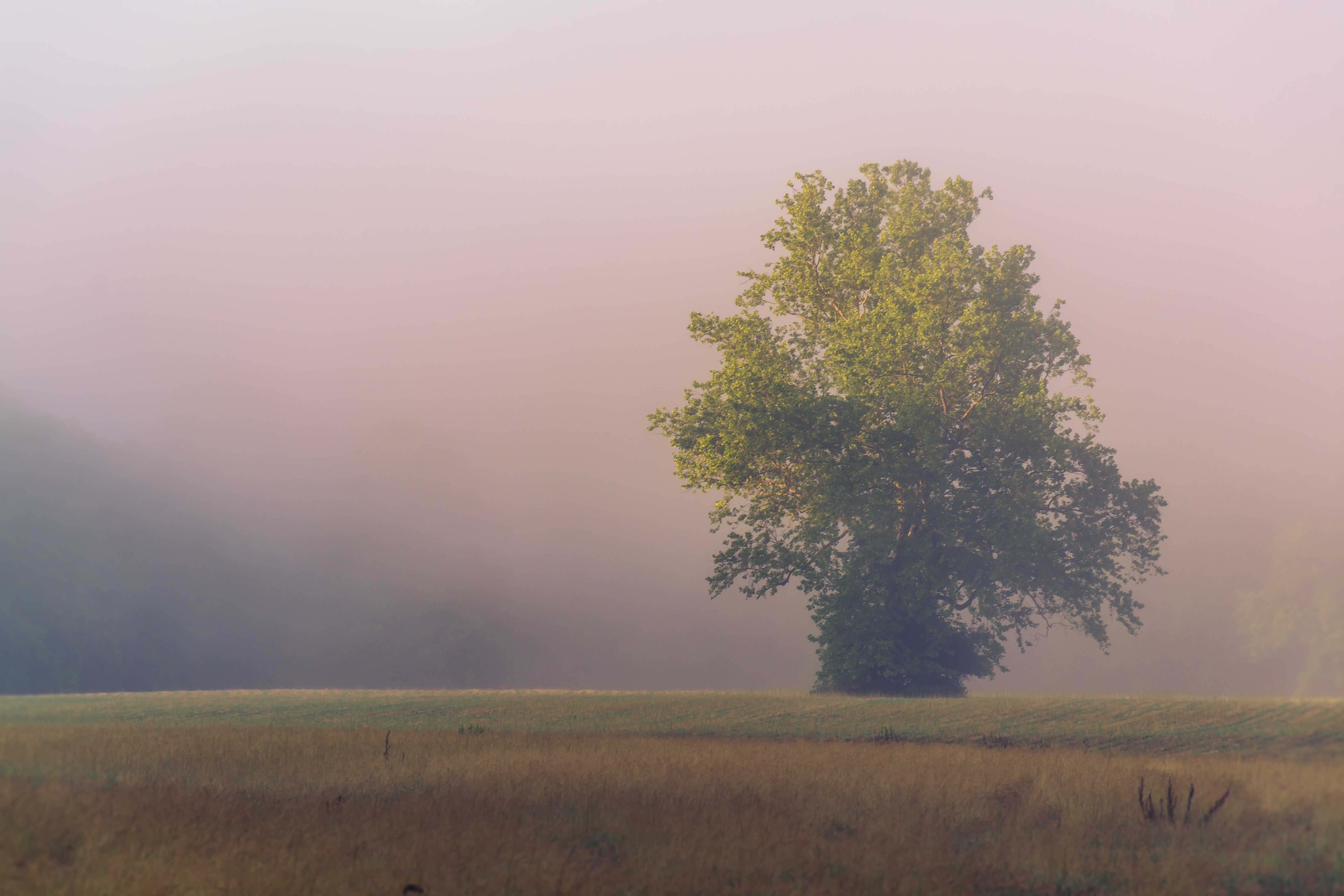 An agricultural field in the First State National Historic Park backdropped by the morning mist.